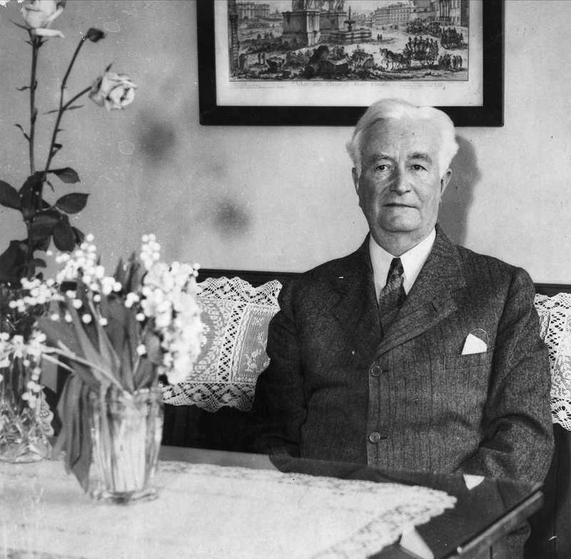 Ambassador Herman Fredrik Gade (1871–1943), photographed about 1935